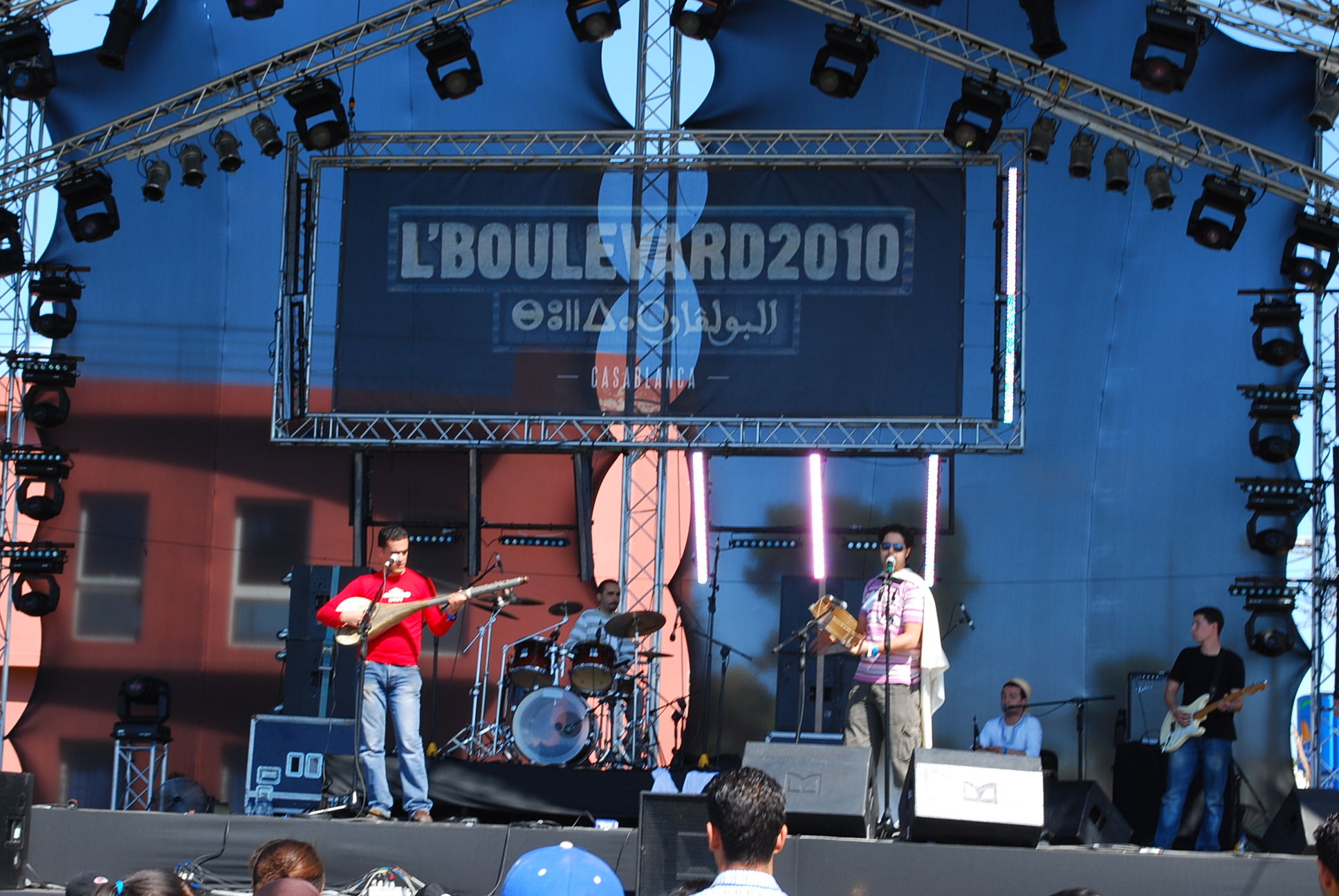 Boulevard des Jeunes Musiciens